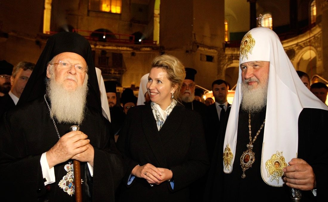 Visit of patriarch Bartholomew to Russia. Visit to Kronstadt church.